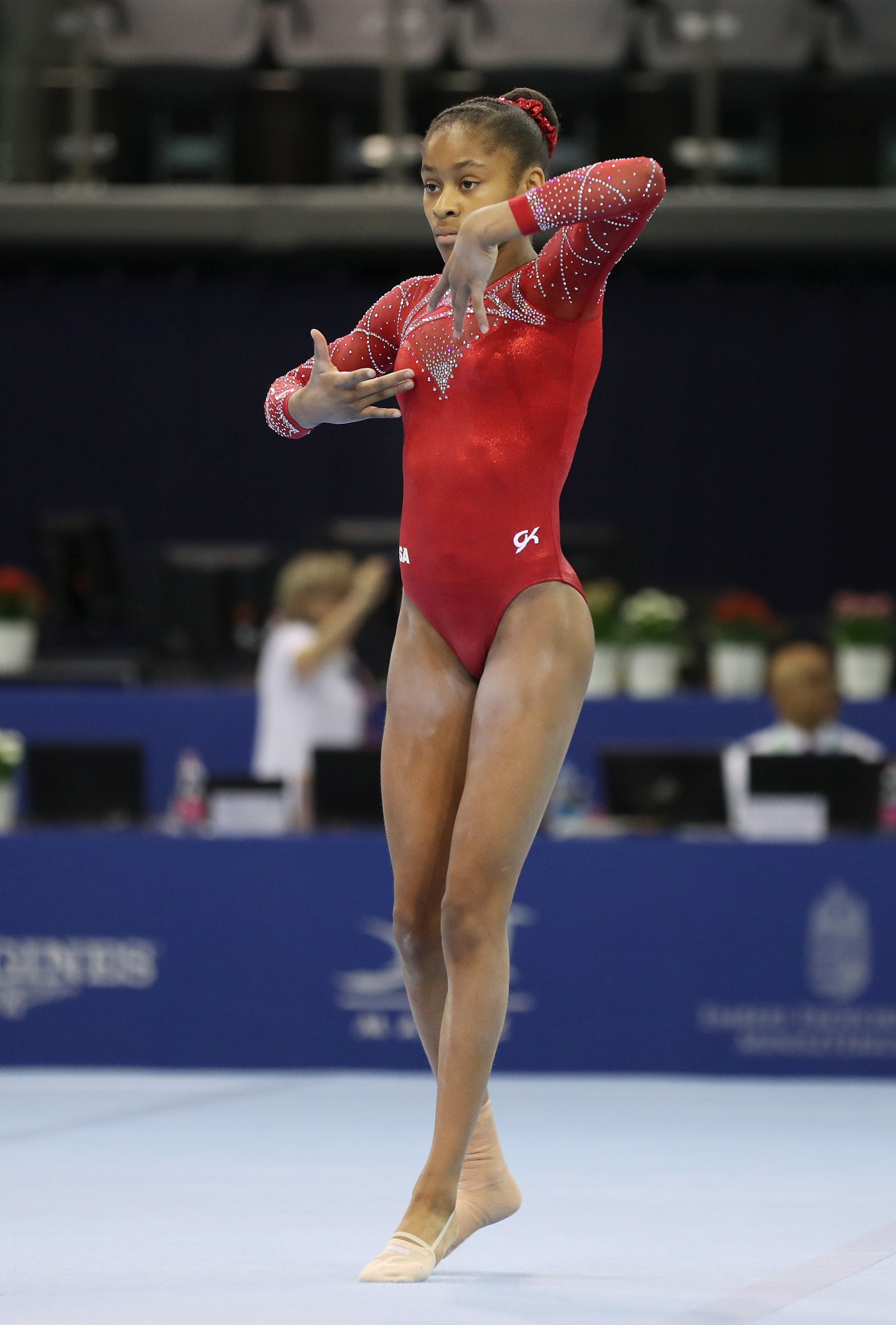 Floor exercise of subdivision 1 during the girls' all-around competition at the 1st FIG Artistic Gymnastics Junior World Championships on 28 June 2019 in Győr, Hungary. Depicted: Skye Blakely.